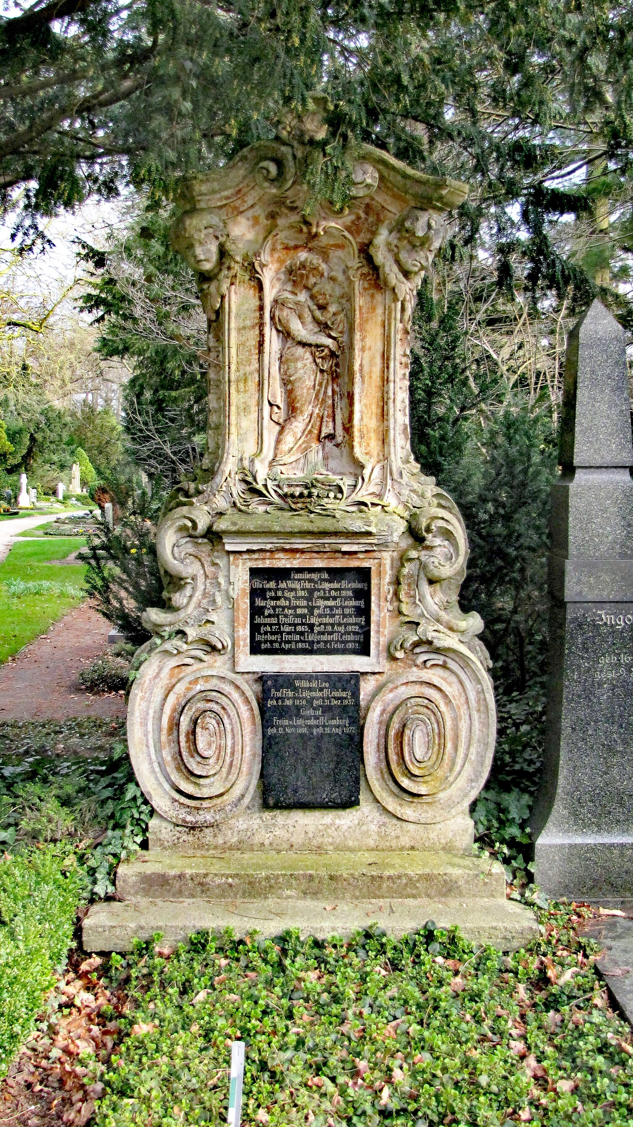 Grave of Willibald Leo von Lütgendorff-Leinburg and his family, Burgtorfriedhof Lübeck